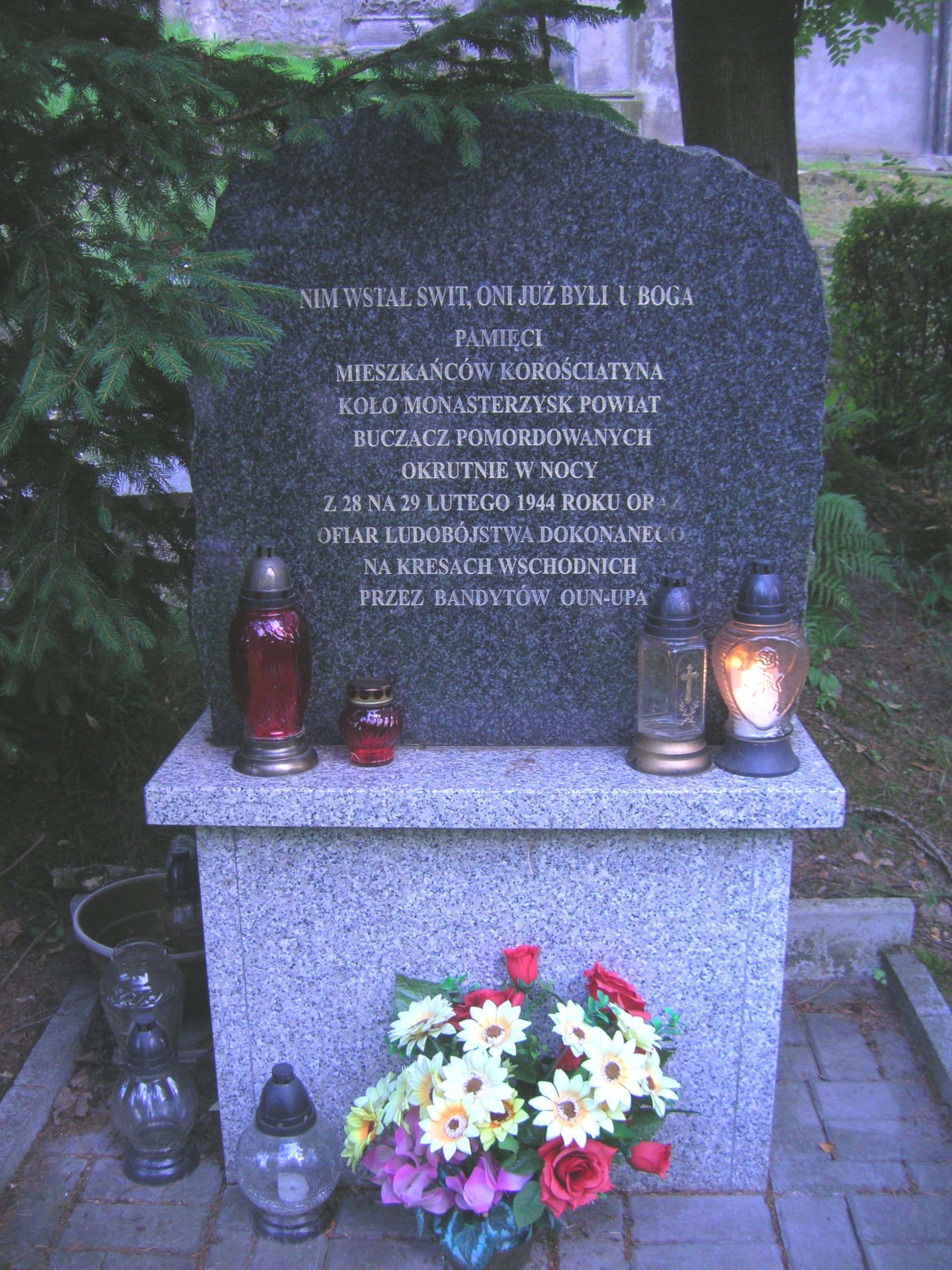 Monument to victims of OUN-UPA from Korościatyn and Kresy Wschodnie in Lwówek Śląski